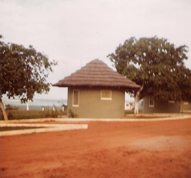 Kissama National Park.